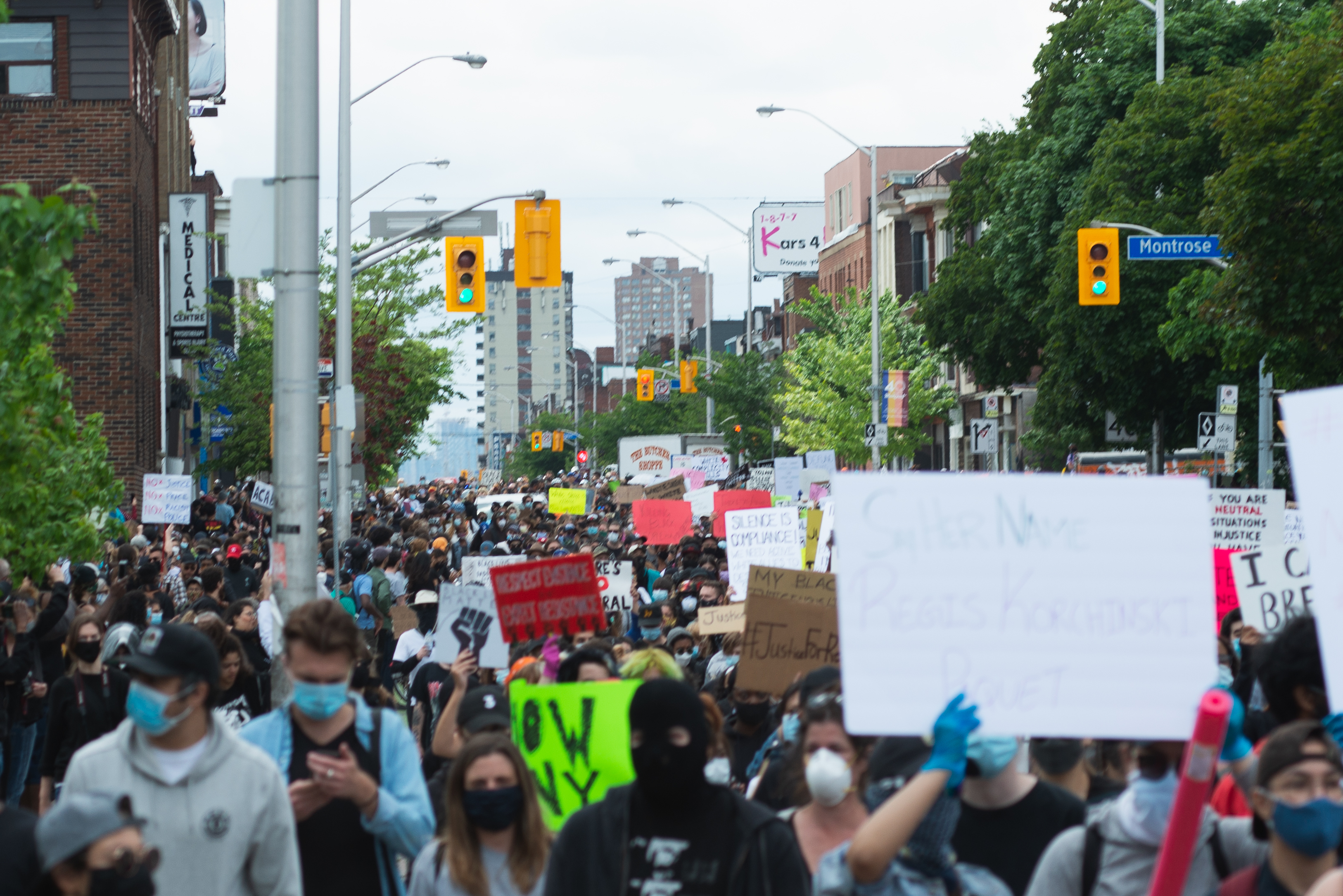 Justice For Regis - Not Another Black Life rally and March.